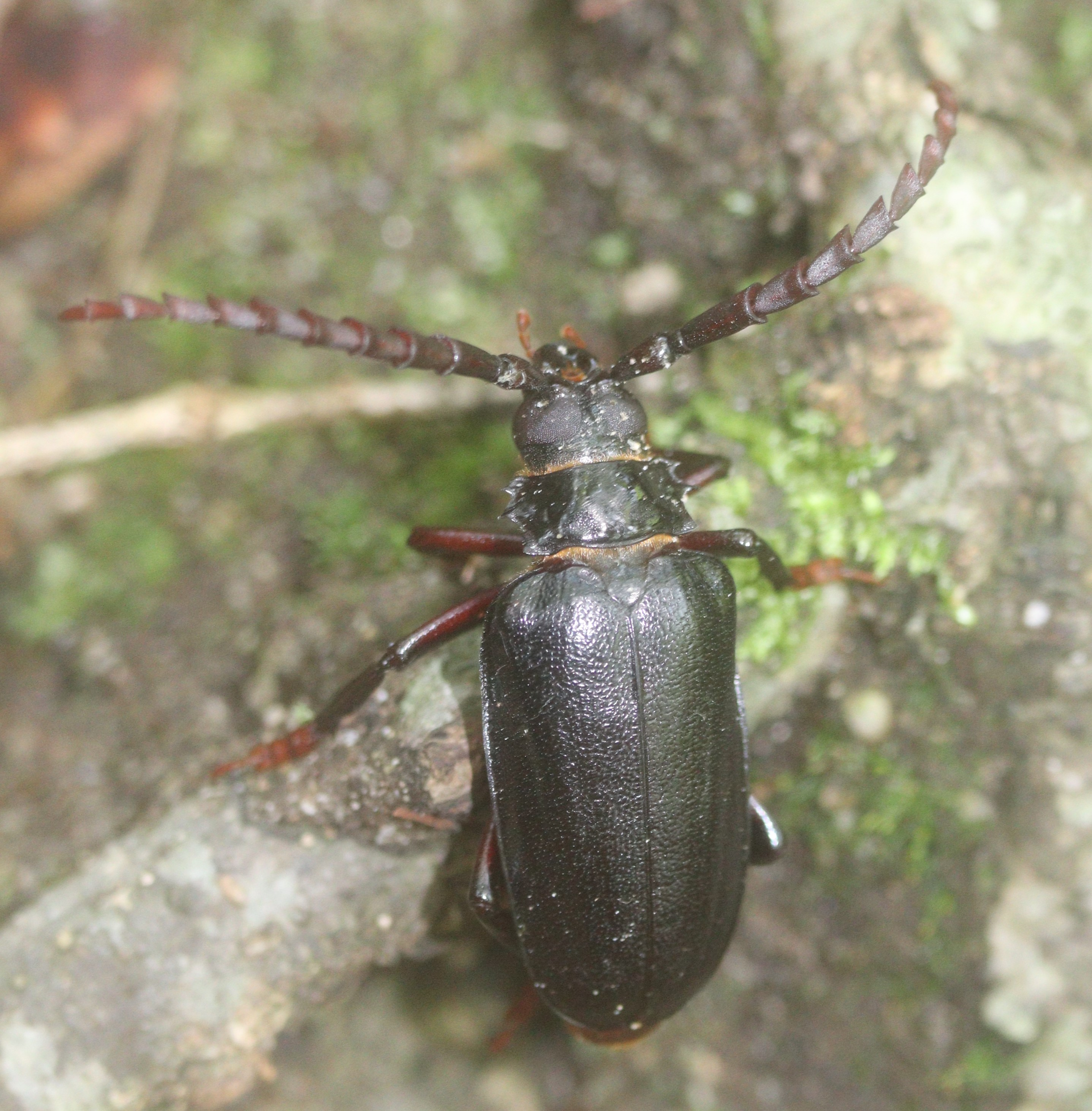 Prionus insularis in Mount Gozaisho, Komono, Mie Prefecture, Japan.